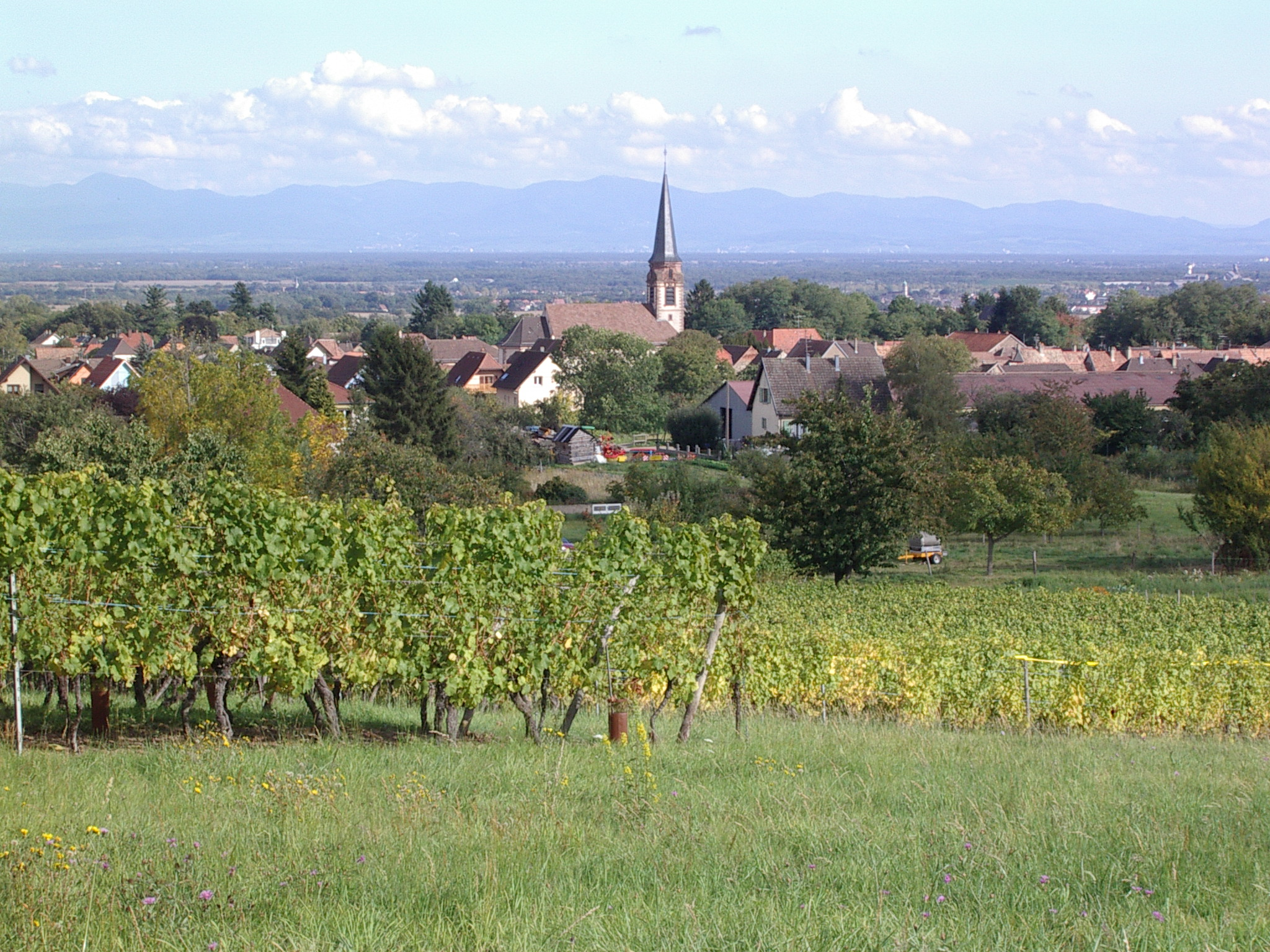 view of Wuenheim, Alsace, France